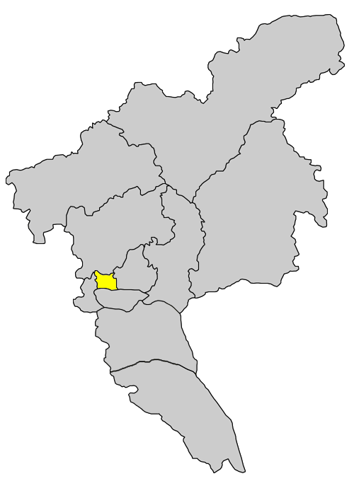 Location of Yuexiu District, Guangzhou